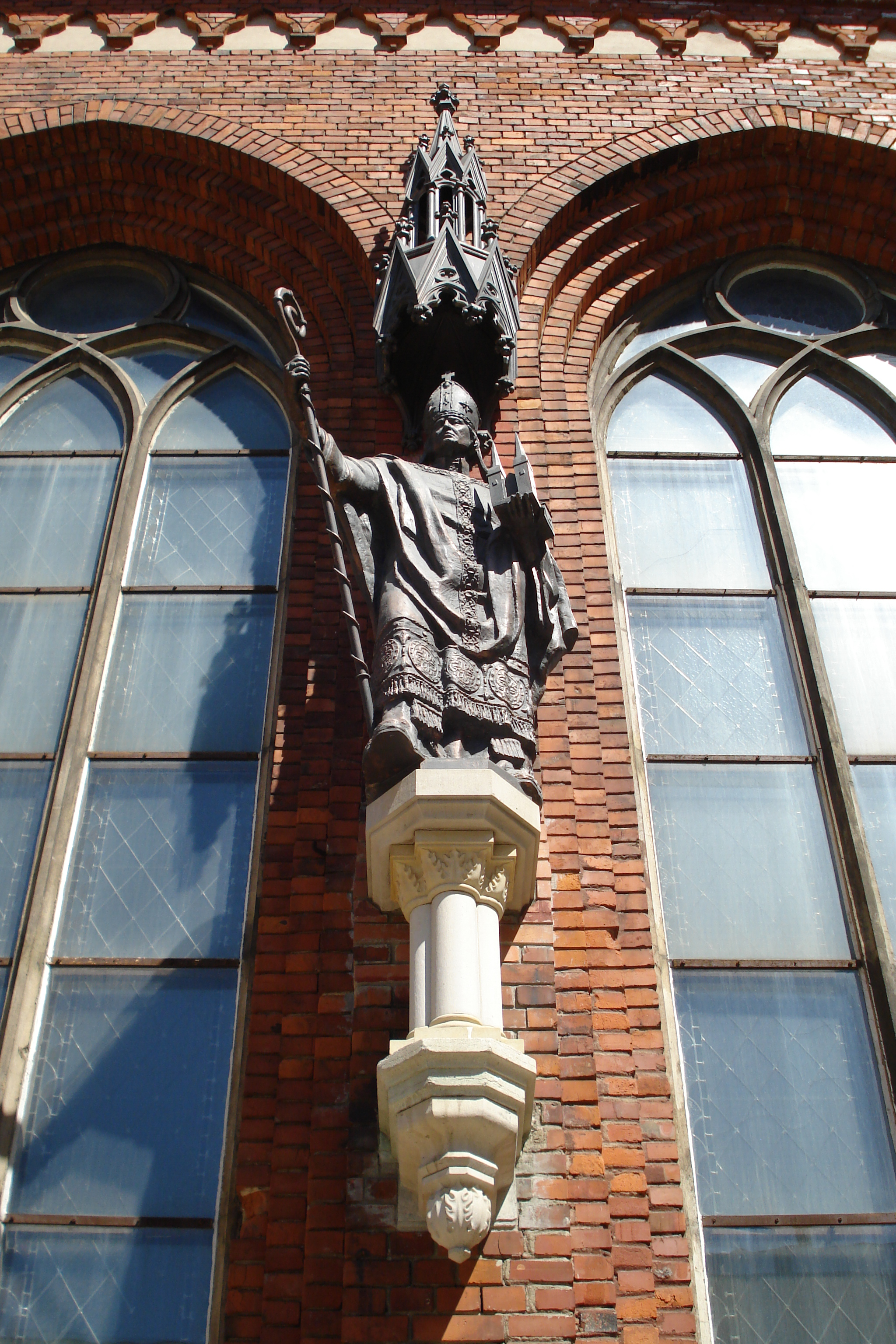 Statue of the Albrecht von Buxthoeven (Bischof von Riga) in the yard of the Riga Cathedral